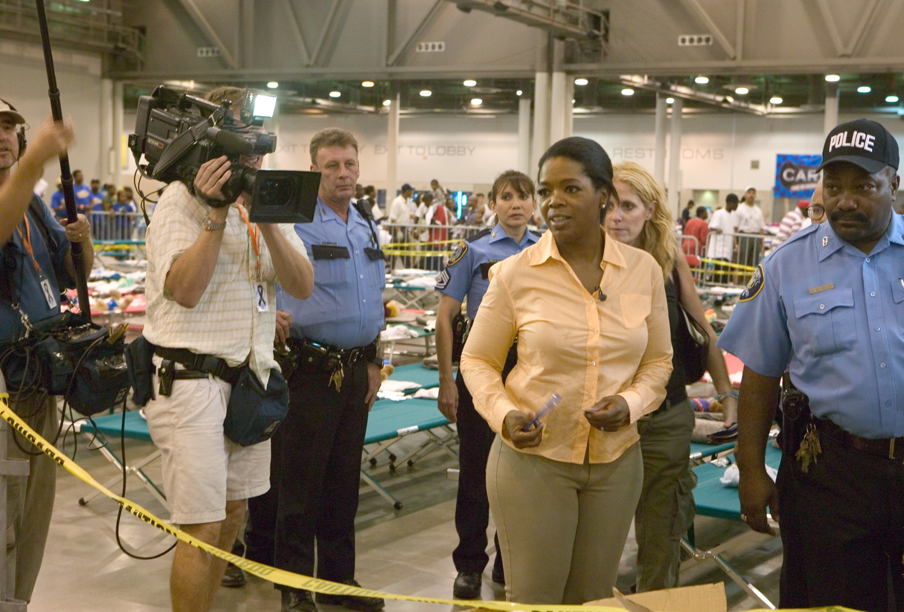 Houston, TX., 9/9/2005 -- Oprah Winfrey visits evacuees from New Orleans temporarily sheltered at the Reliant center in Houston following Hurricane Katrina. FEMA photo/Andrea Booher